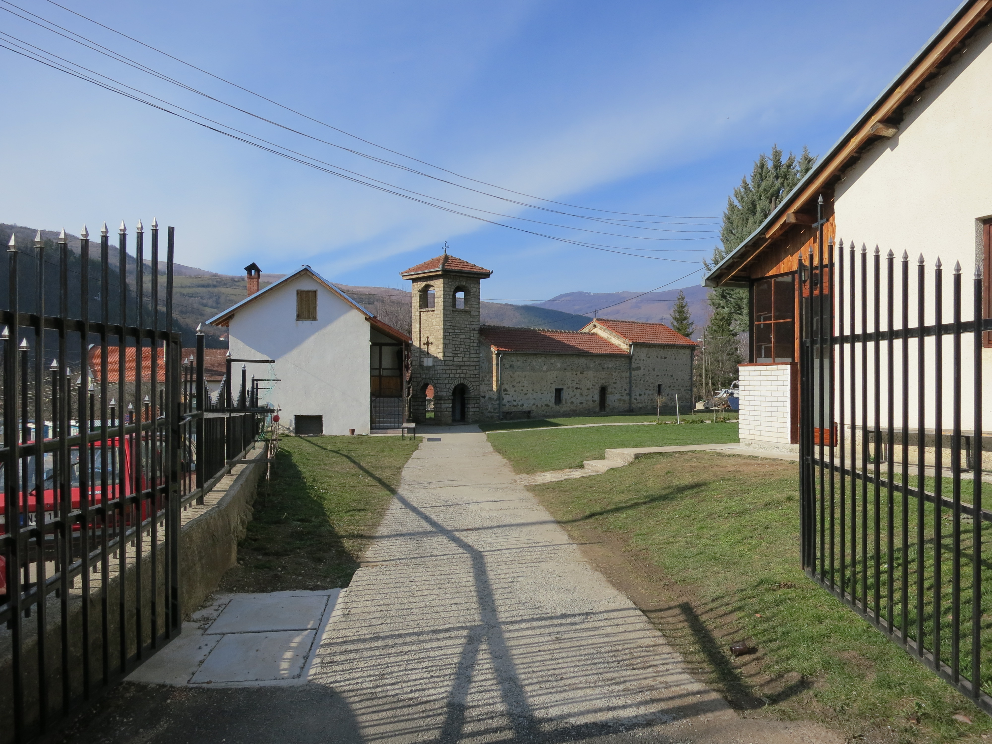 view of Sveti Nikola church in Strpce